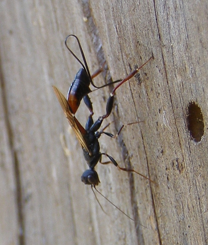 Stephanus serrator F, ovipositing on an old block of pine tree. Aguiar ID